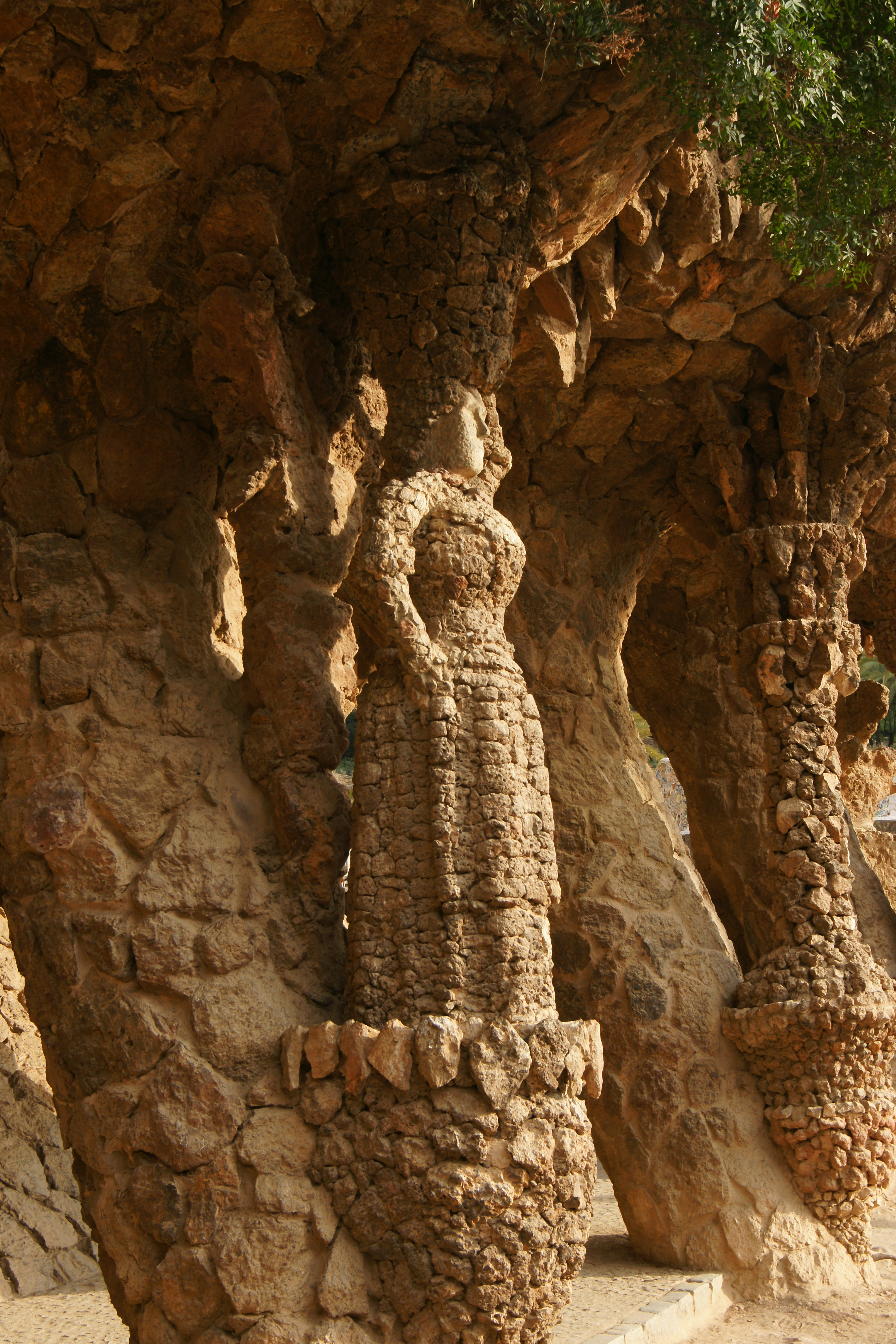 Park Güell is a garden complex with architectural elements situated on the hill of El Carmel in the Gràcia district of Barcelona, Spain. It is part of the UNESCO World Heritage Site "Works of Antoni Gaudí".